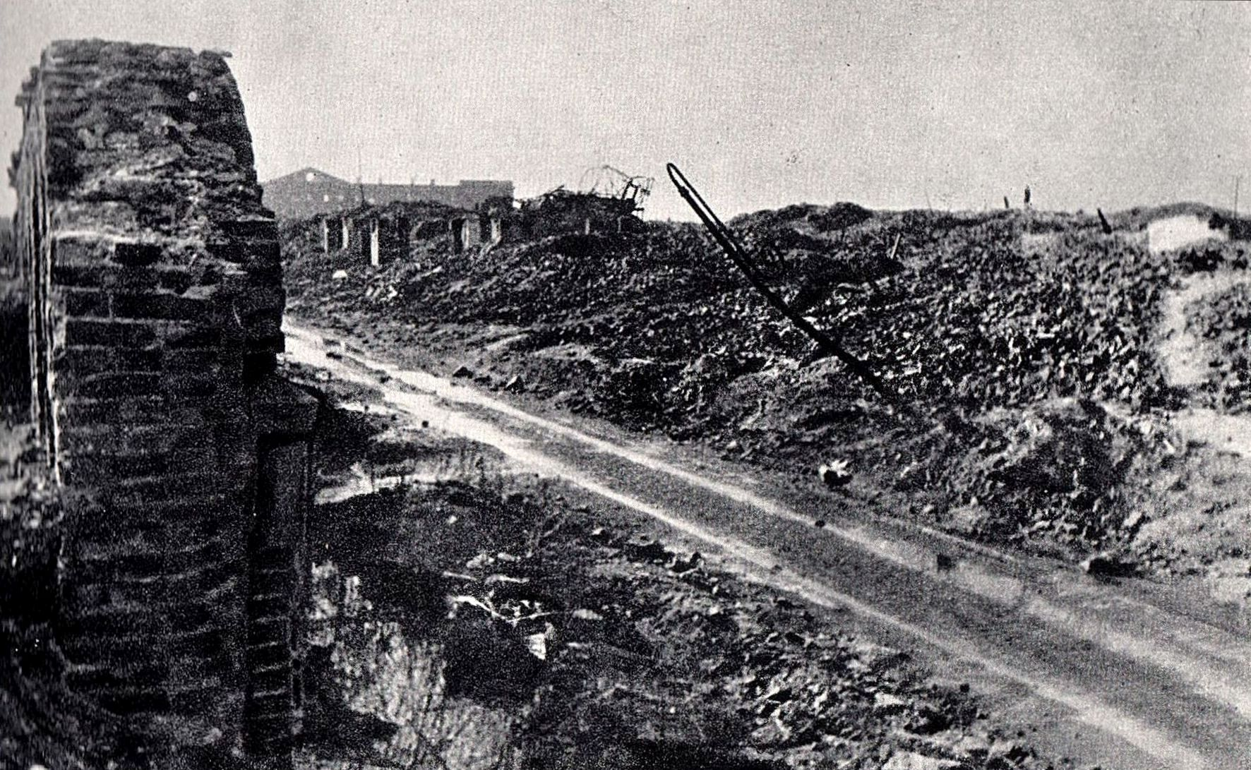 Warsaw Ghetto area after the war. Picture taken from the ruins of Gęsia 1 to the west. On the left ruins of Gęsia 6/8 and Wołyńskie Barracks